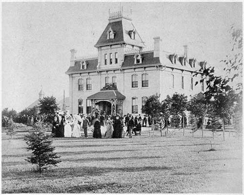 Photograph of Government House in Winnipeg, Manitoba, Canada. The original caption read "Garden Party, Government House, Winnipeg, August 9, 1889". Original caption: “Garden Party, Government House, Winnipeg, August 9, 1889.” — removed caption